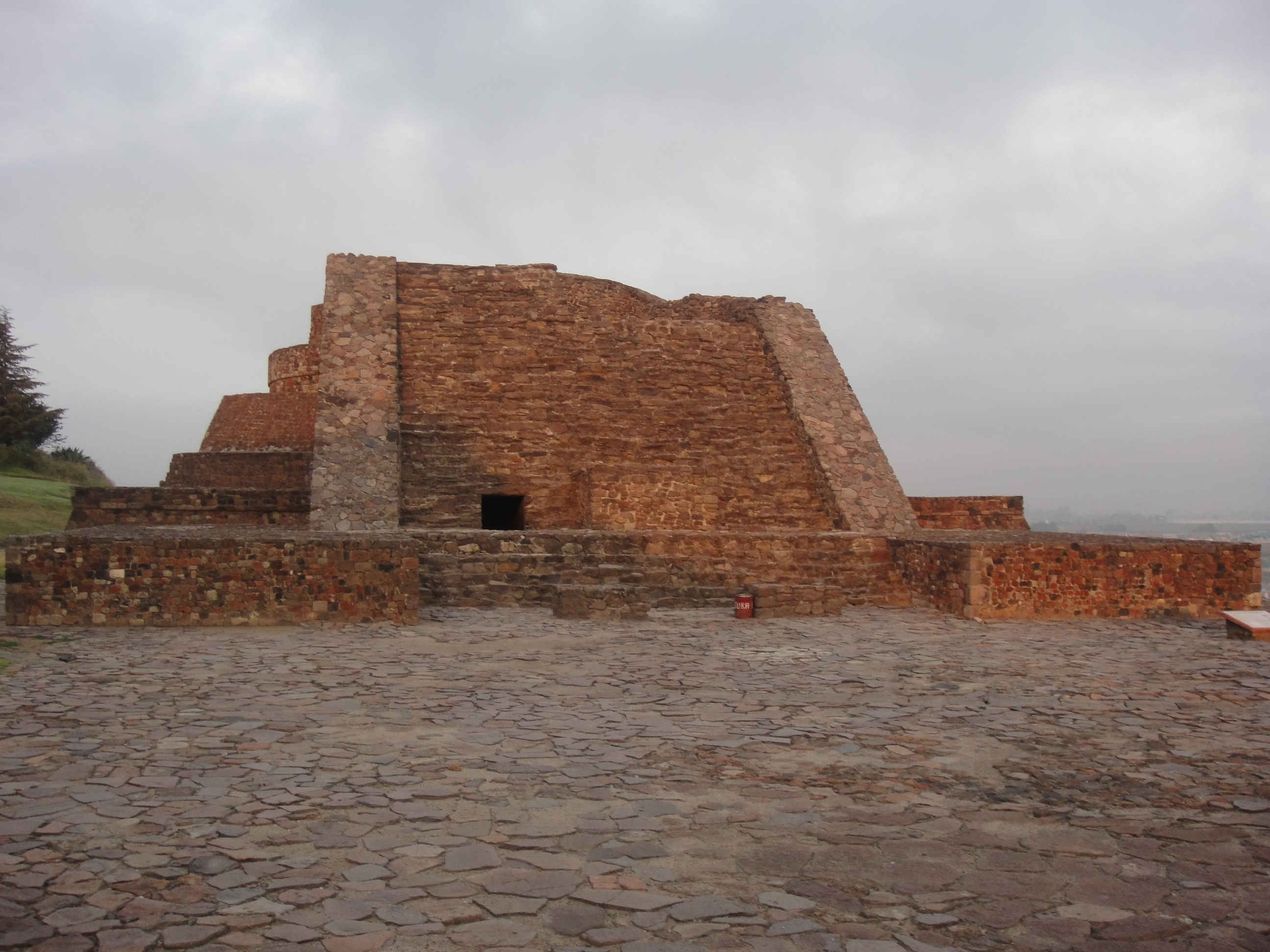 Eastern view Ehécatl's Temple